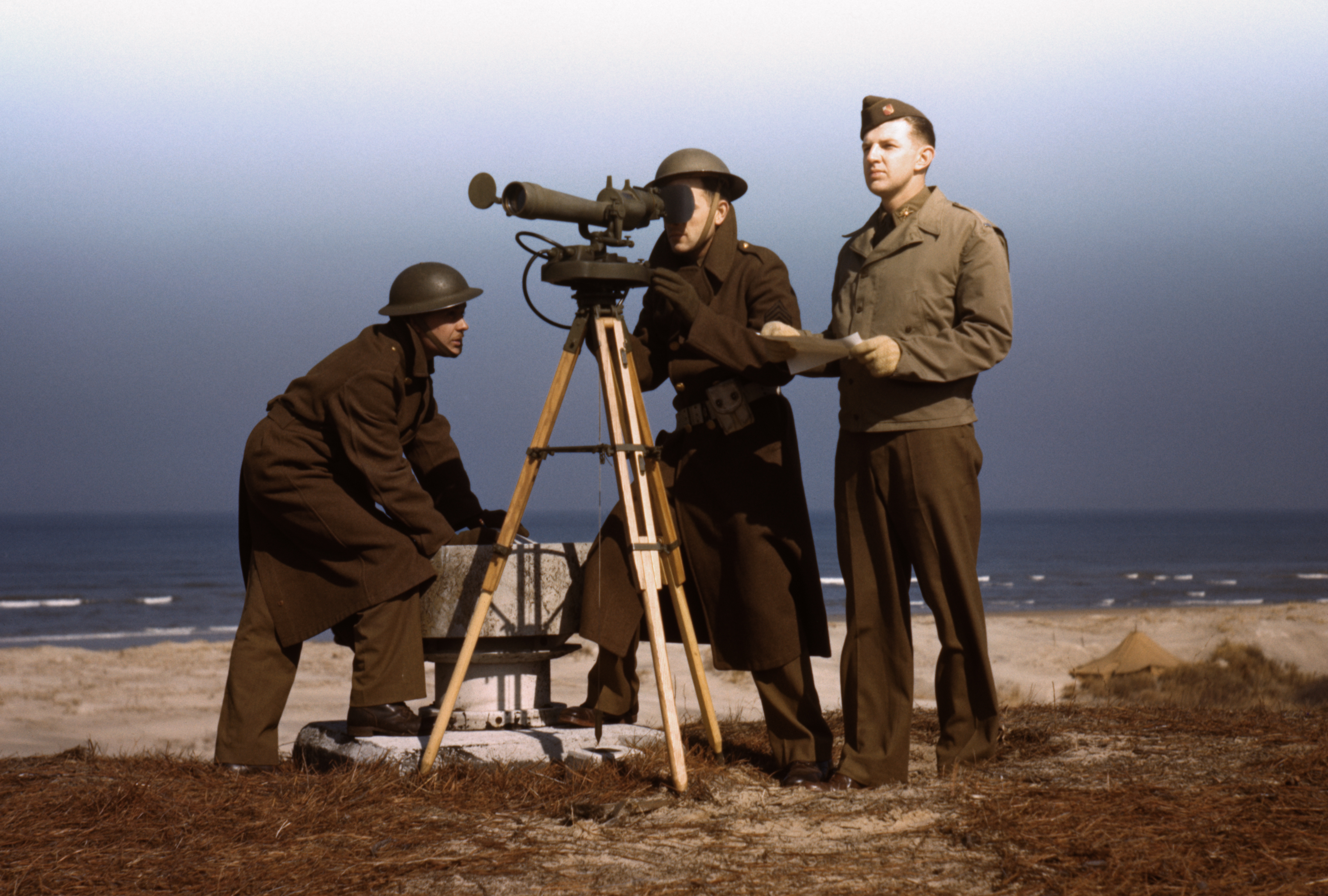 Men of Fort Story operate an azimuth instrument, to measure the angle of splash in sea-target practice, Fort Story, Va.